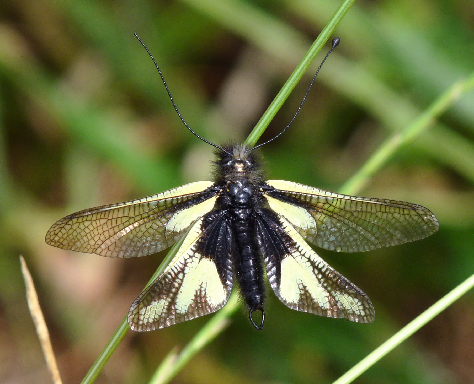 Male Owly Sulphur near Collesalvetti (LI), Tuscany, Italy